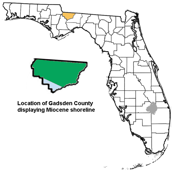 Gadsden County Florida showing Miocene shoreline.